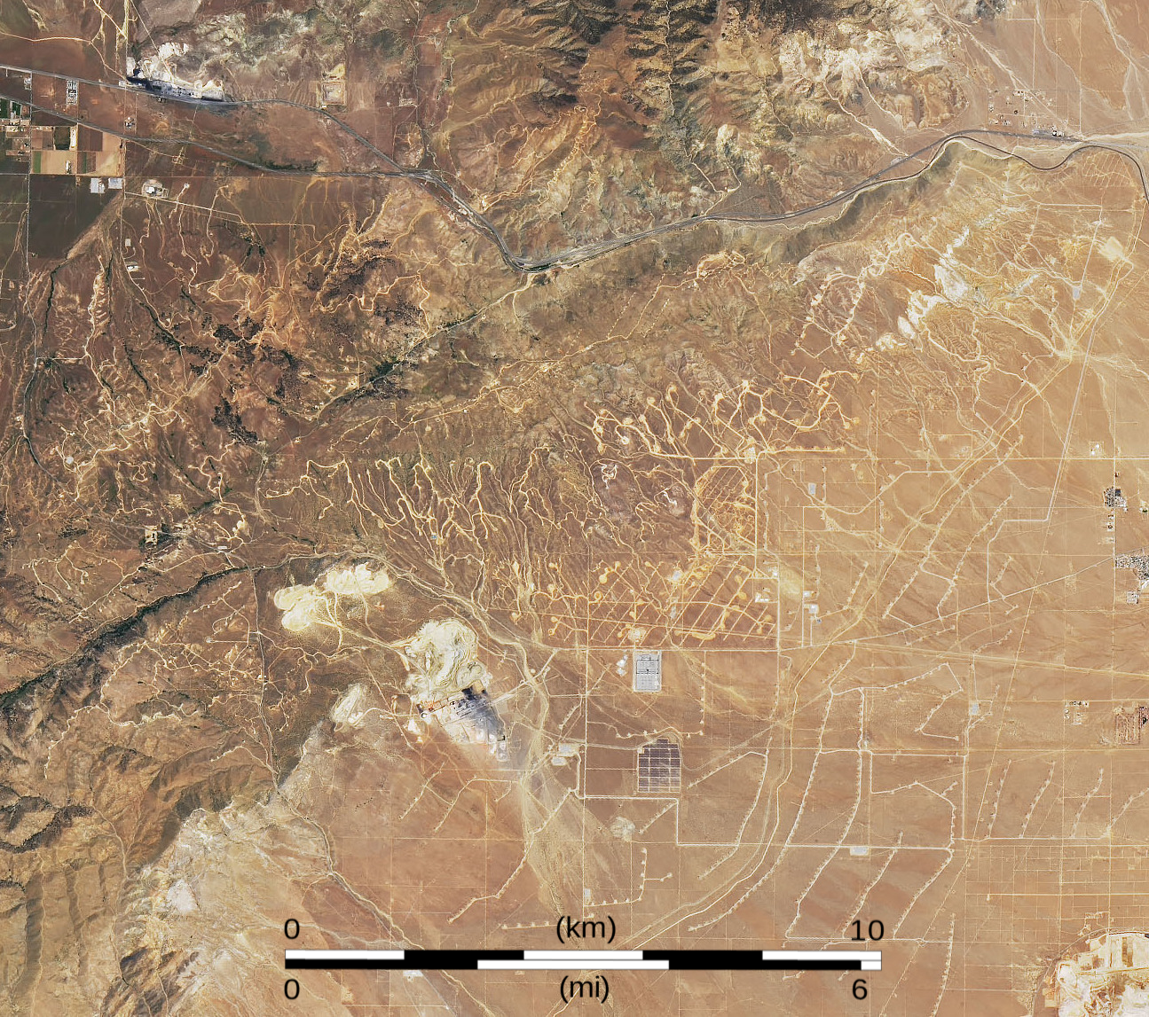 Satellite image of the central part of the Tehachapi Wind Resource Area in California with its big wind farms Alta Wind Energy Center and Tehachapi Pass wind farm. The wind turbines are connected by both straight and sinuous access roads, which are well visible in this image. On July 1, 2019, Operational Land Imager (OLI) on NASA's Landsat 8 acquired this image. I added a scale bar.